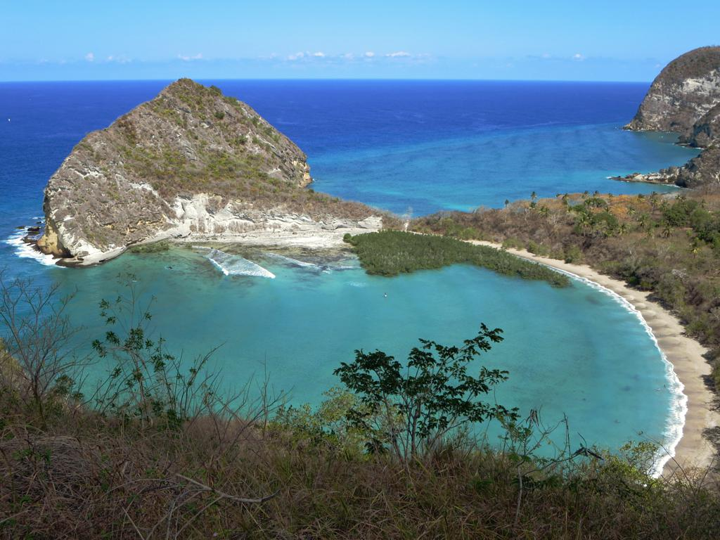 Moya Beach on the east coast of Petite Terre, Mayotte, faces the Indian Ocean.